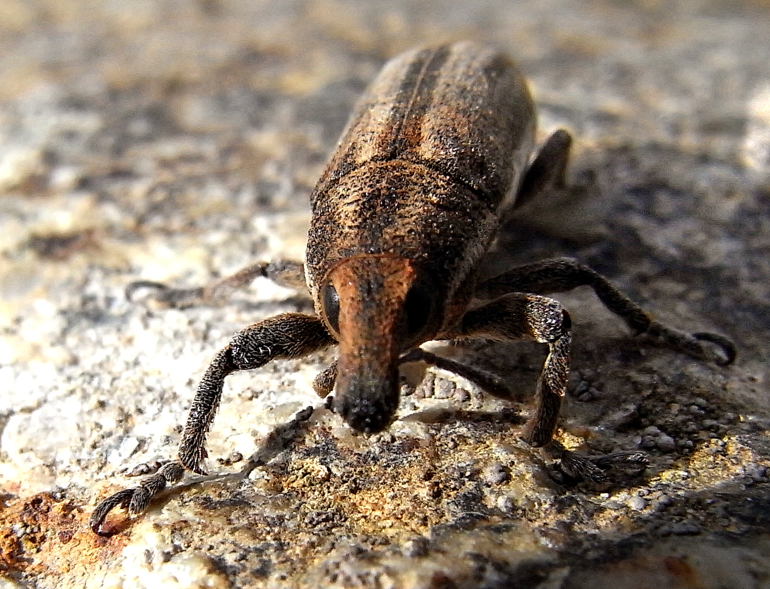 Lixus spartii Ricoh R8